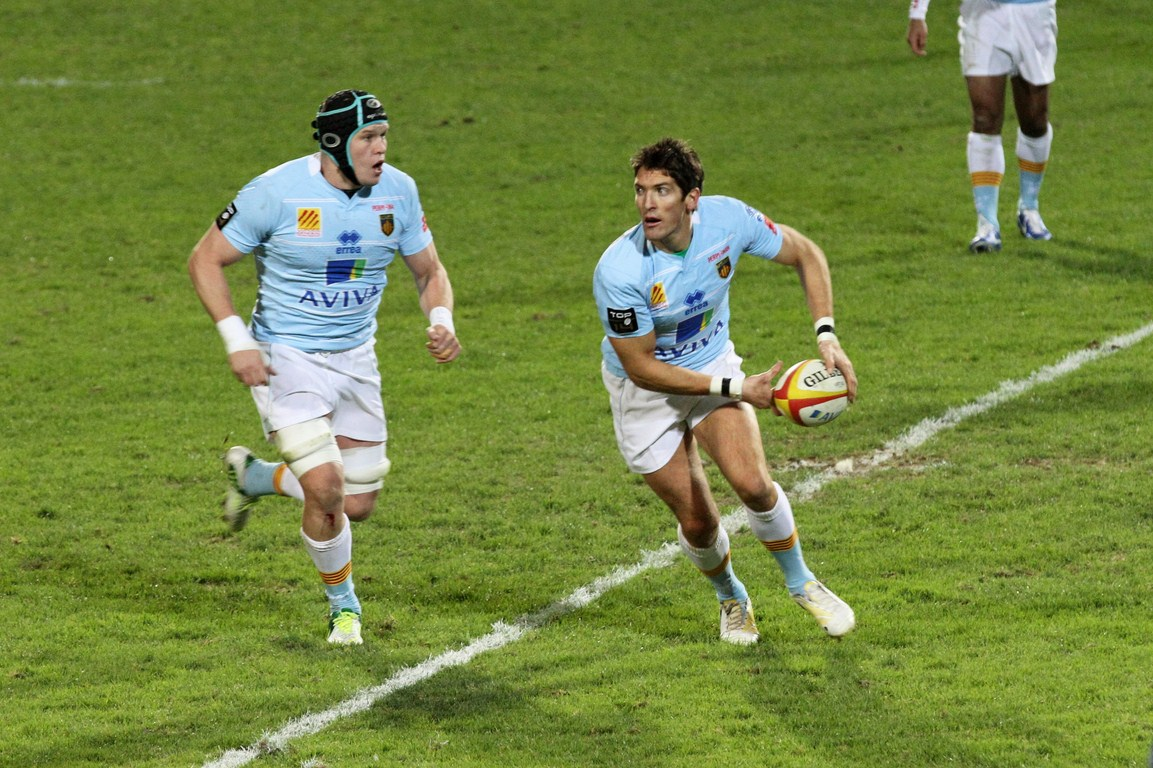 James Hook devant Luke Narraway face à Agen lors de la 12ème journée de Top 14